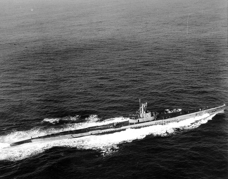 USS Salmon (SS-182), February 1945. Removed caption read: Photo # NH 97464 USS Salmon underway, February 1945